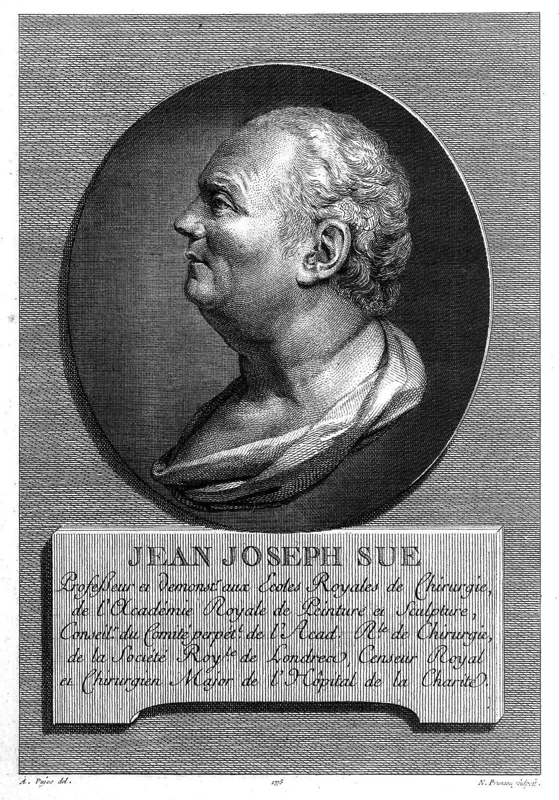 Jean Joseph Sue Iconographic Collections Keywords: Sue; André Pujos; N. Pruneau